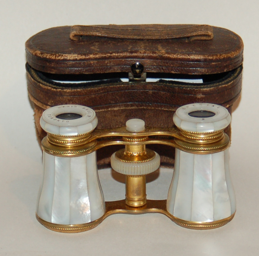 Early 20th century mother of pearl opera glasses & leather case. The glasses are marked with the name of the vendor "Ryrie Bros. Toronto"